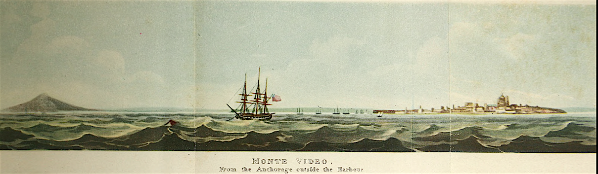 The city of Montevideo viewed from the River Plate c.1820